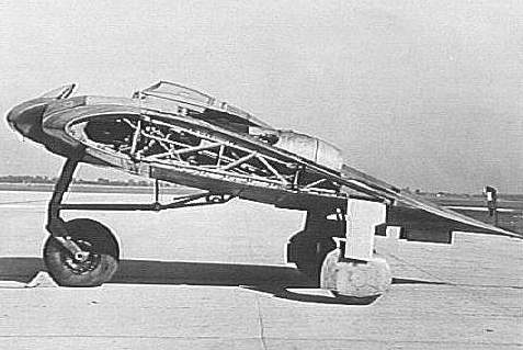 Horten Ho 9 aka Go 229, on the Freeman Airfield.